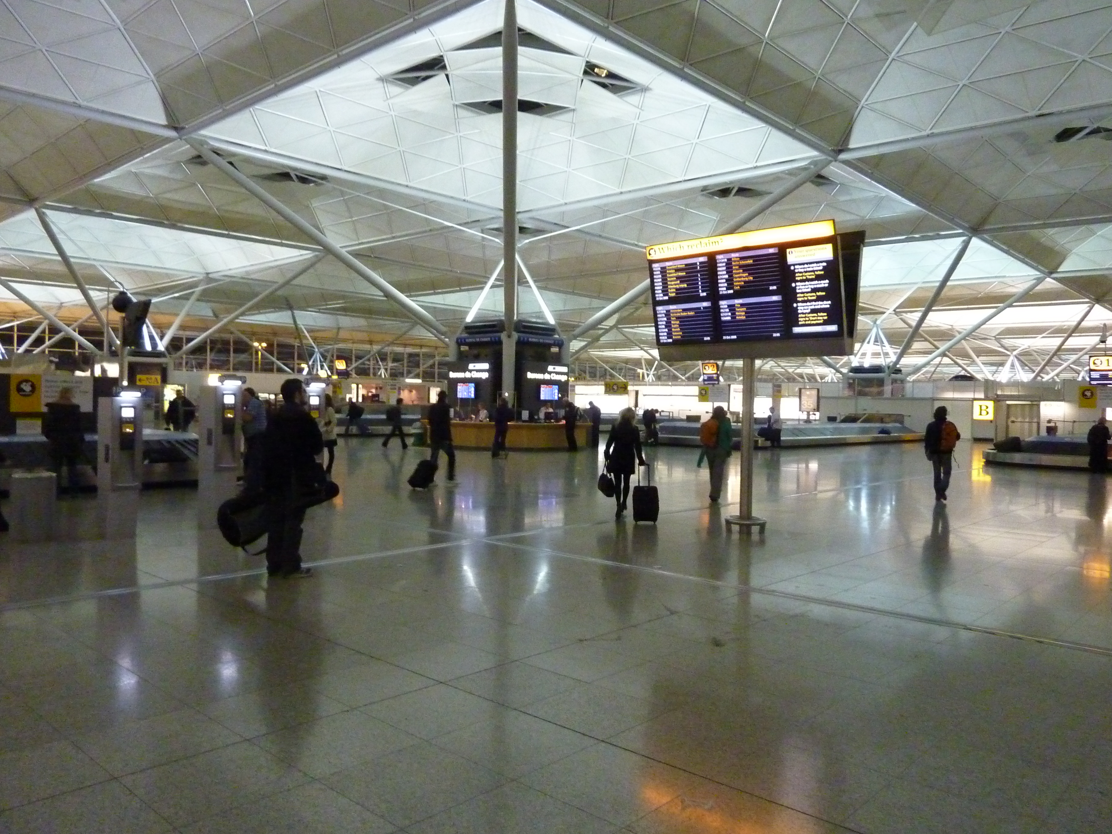 Arrival Hall at London Stansted Airport